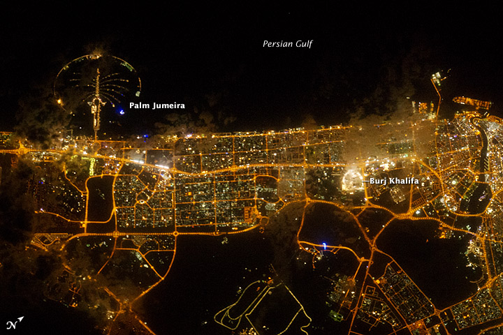 City Lights of Dubai, United Arab Emirates